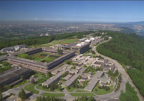 Aerial view of Simon Fraser University in Burnaby, British Columbia, Canada